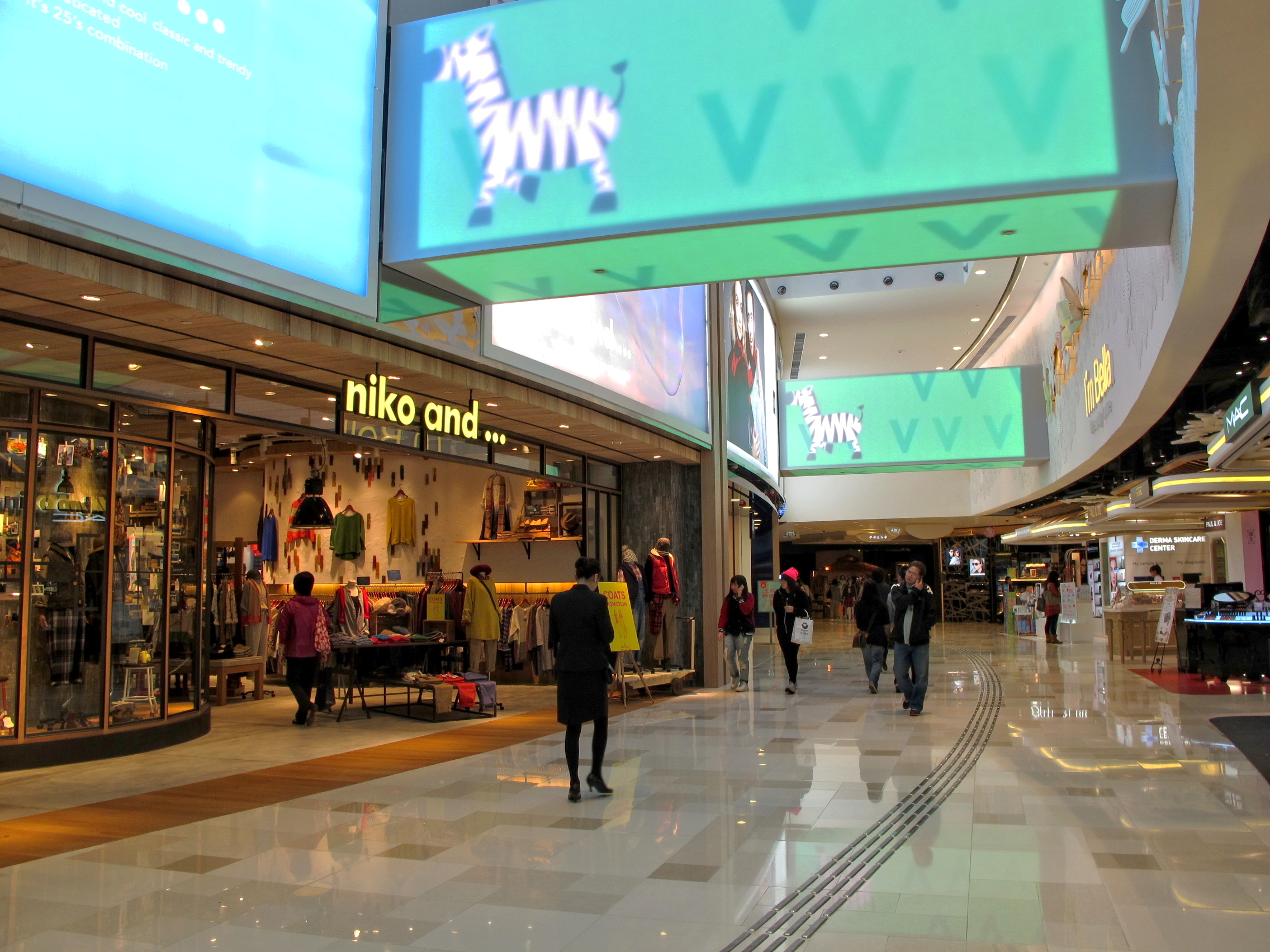 V City MTR Level